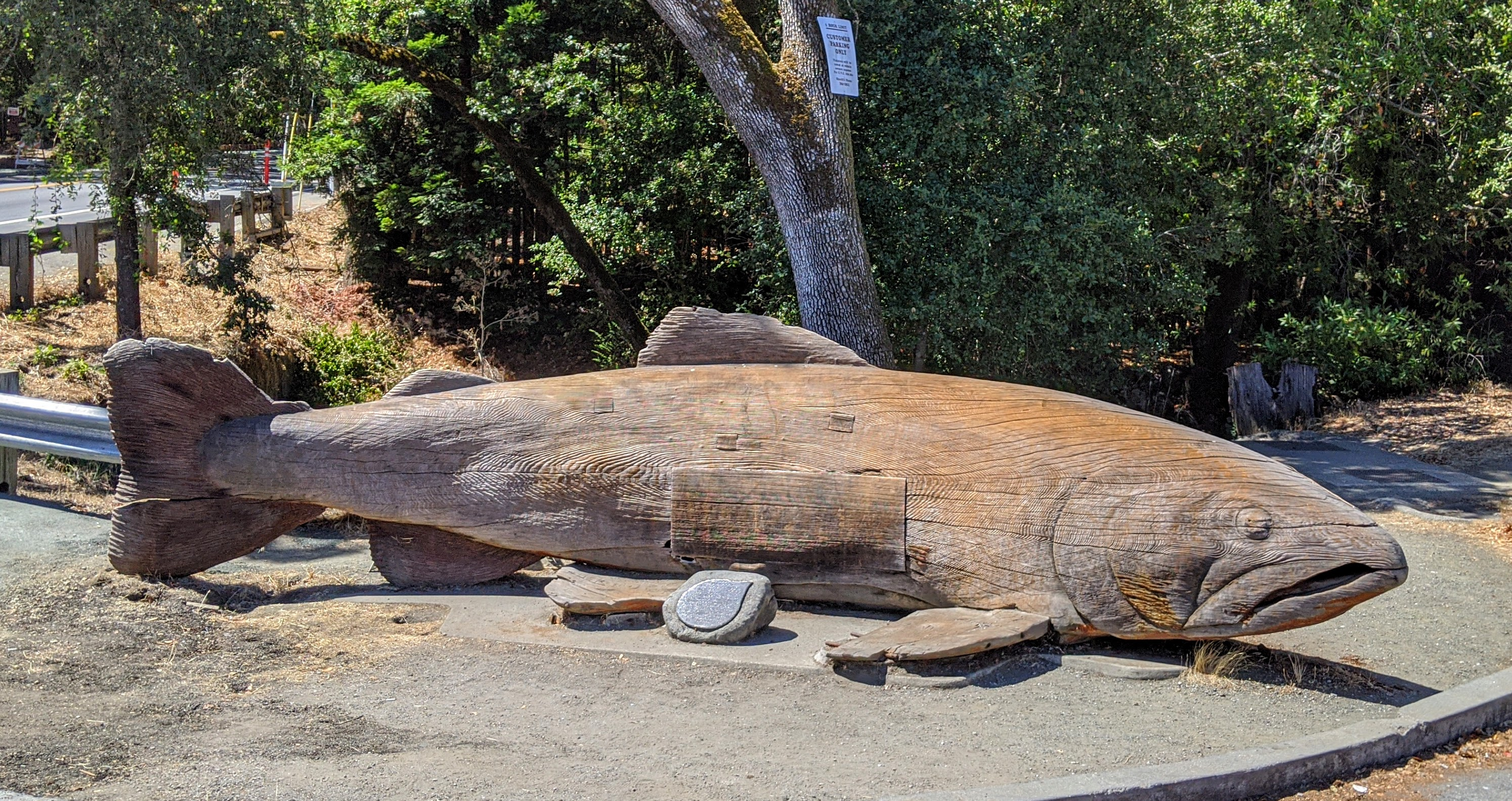 Silver trout carving at Buck's of Woodside. "Woody" or "The Indomitable Trout". More description copied from File:Indomitable Salmon Carving.jpg: A carving by Floyd Davis of the Indomitable Salmon, originally installed at Humboldt County's Prairie Creek Fish Hatchery in 1974 after fundraising efforts by former San Francisco 49er Ed Henke. The original rotted away and a copy was made without seeing the original which was later sold to the Arcata Co-op Grocery Store by the Humboldt County Supervisors and is currently outside Buck's of Woodside restaurant in Woodside, San Mateo County, California. The original dedication marker read "As a lasting tribute to the never ending struggle within nature for the survival of the species… This replica of the Indomitable salmon was presented to Humboldt County and its Prairie Creek Fish Hatchery on March 5, 1974, by the following as a symbol of the interdependence and common spirit that binds man to nature and all living things."